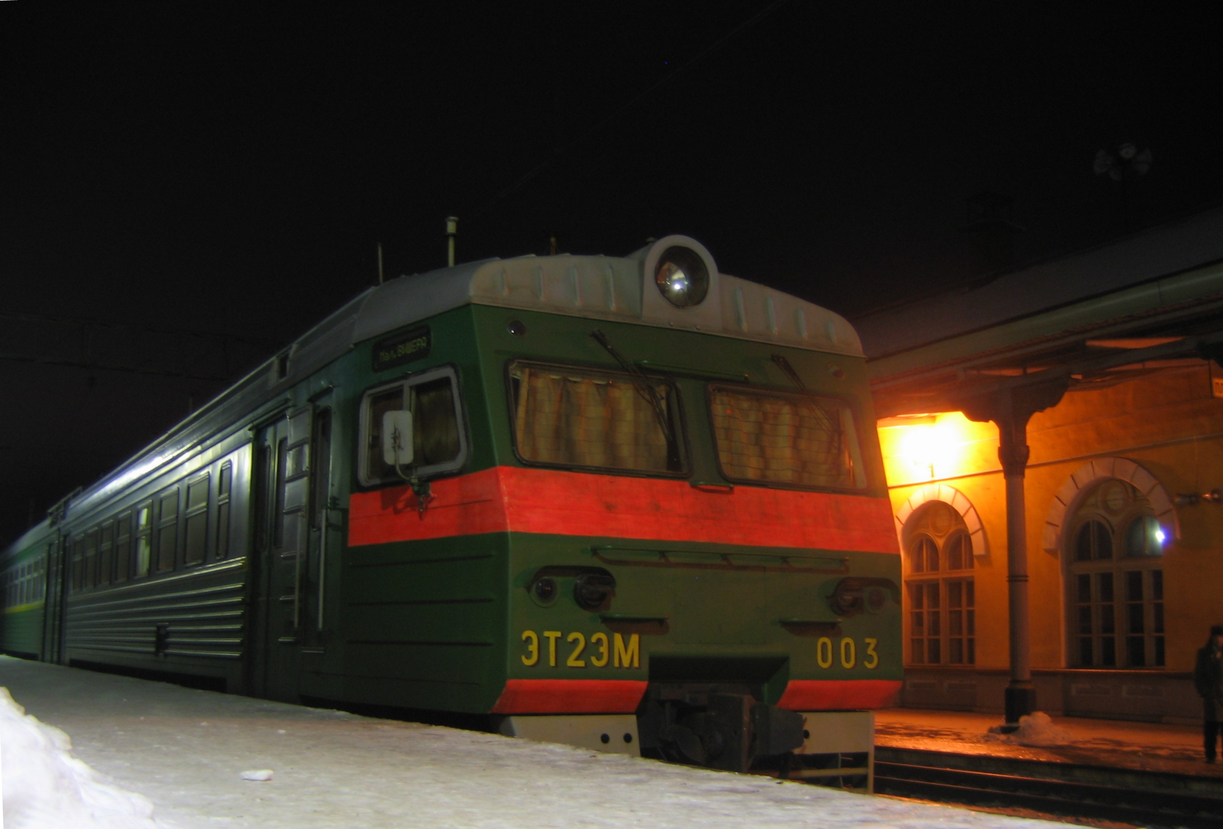 ET2EM electric multiple unit at Malaya Vishera railway station, Russia